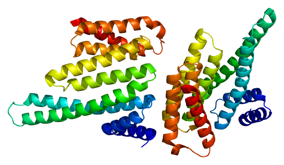 Structure of the YWHAB protein. Based on PyMOL rendering of PDB 2bq0.